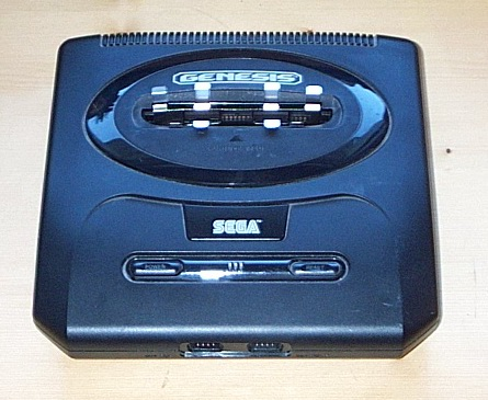 Picture of the Sega Genesis 2 game console.As can be seen here, the Genesis 2 model was nearly square in shape. The original Genesis was much wider.